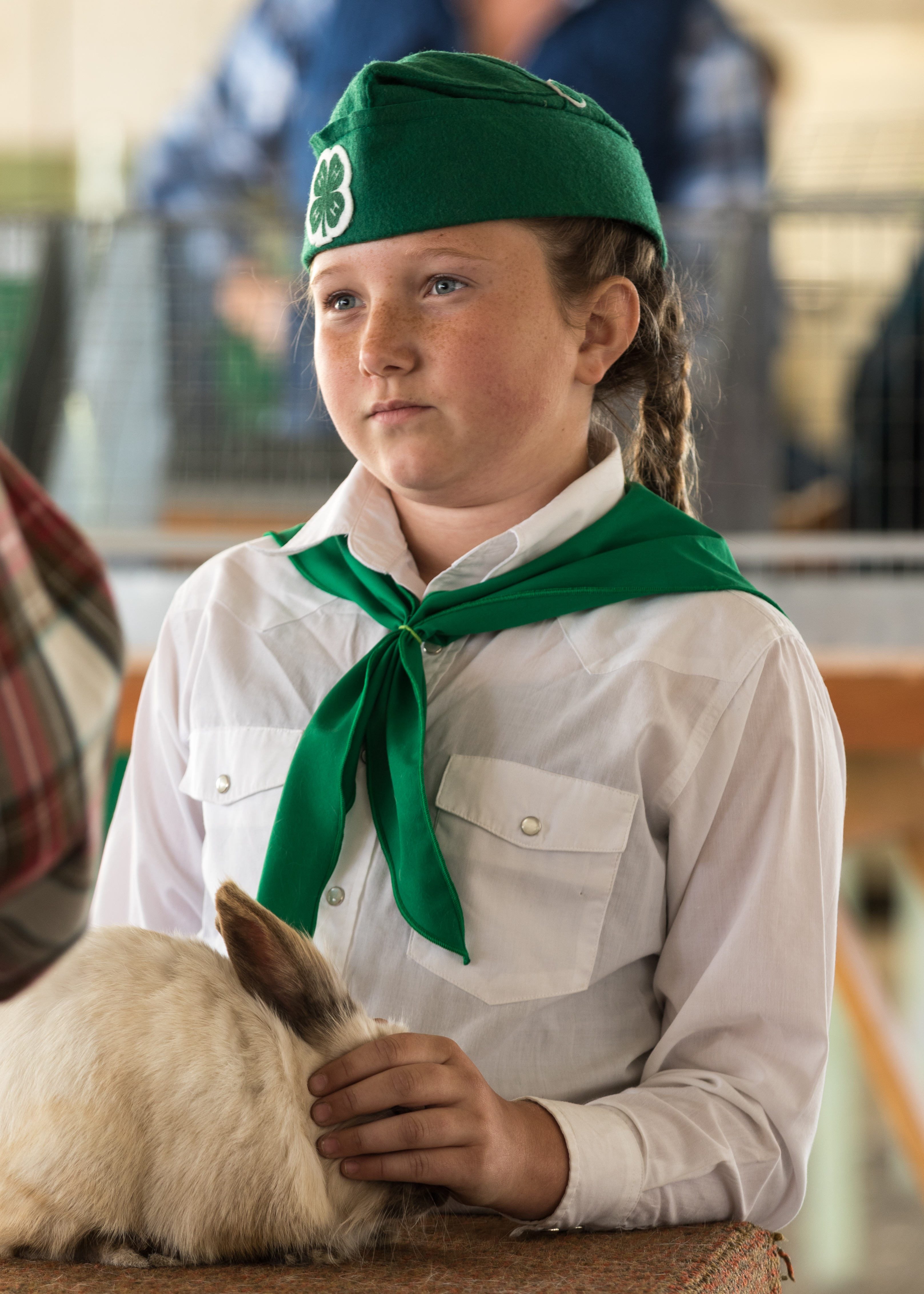 4-H girl presenting her bunny at Calaveras County Fair 2016